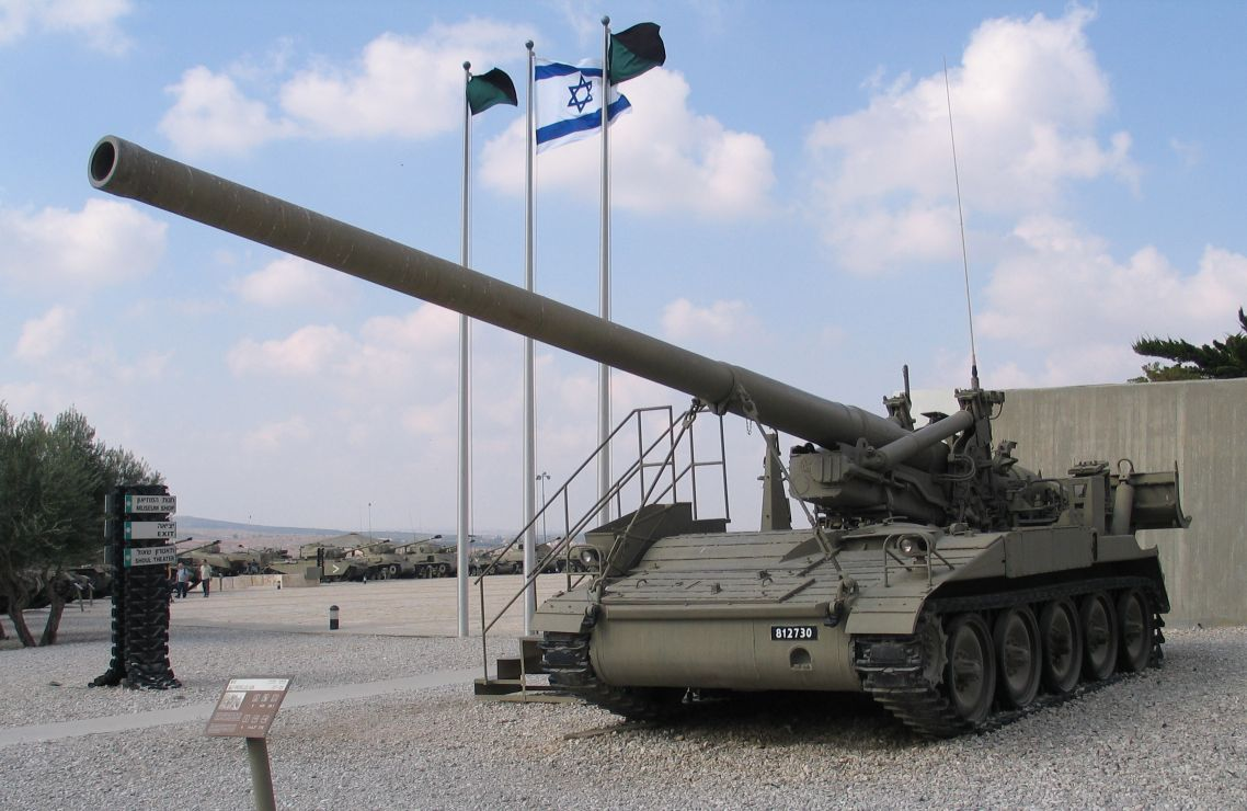 Description: M107 175 mm sp gun in Yad la-Shiryon Museum, Israel. 2005. Source: Photo by me, User:Bukvoed.